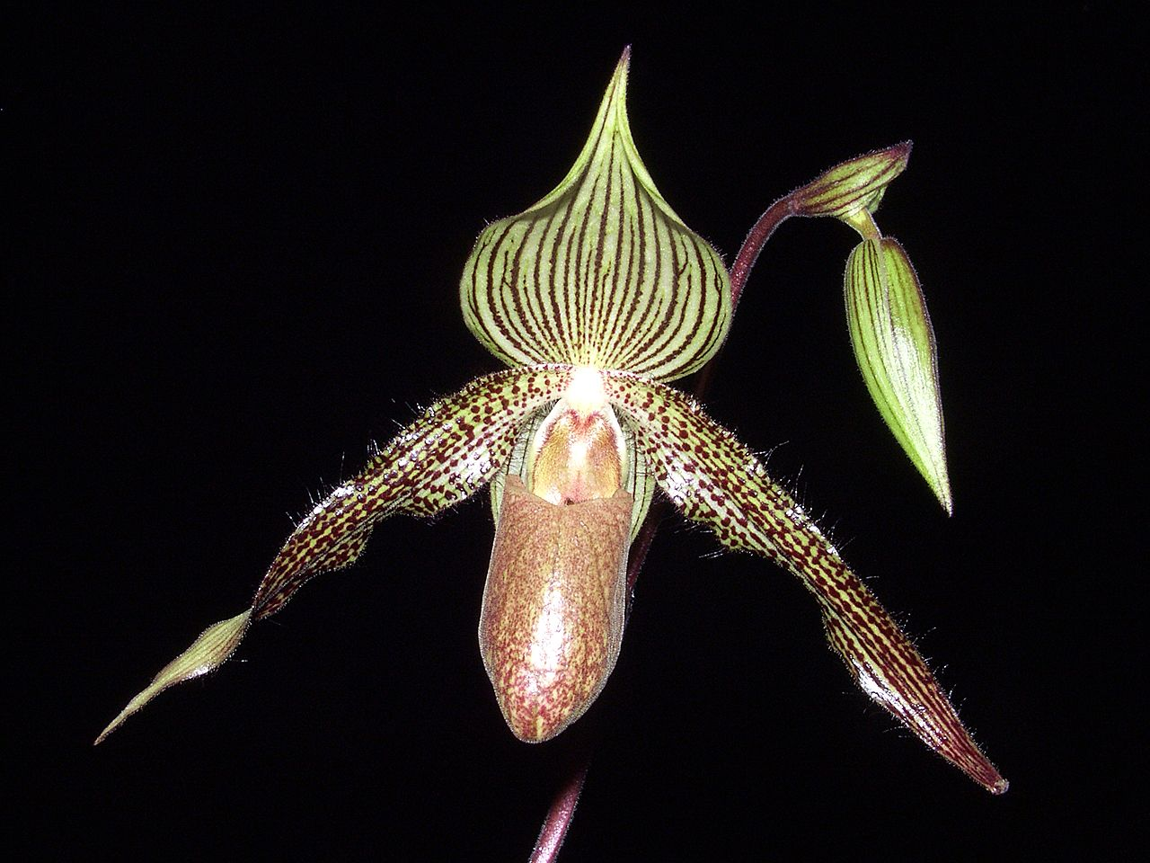 Paphiopedilum Cultivar (Paphiopedilum rothschildianum × Paphiopedilum wardii)Description:Paphiopedilum CultivarSources:bot. gardenAuthor:License:GFDL